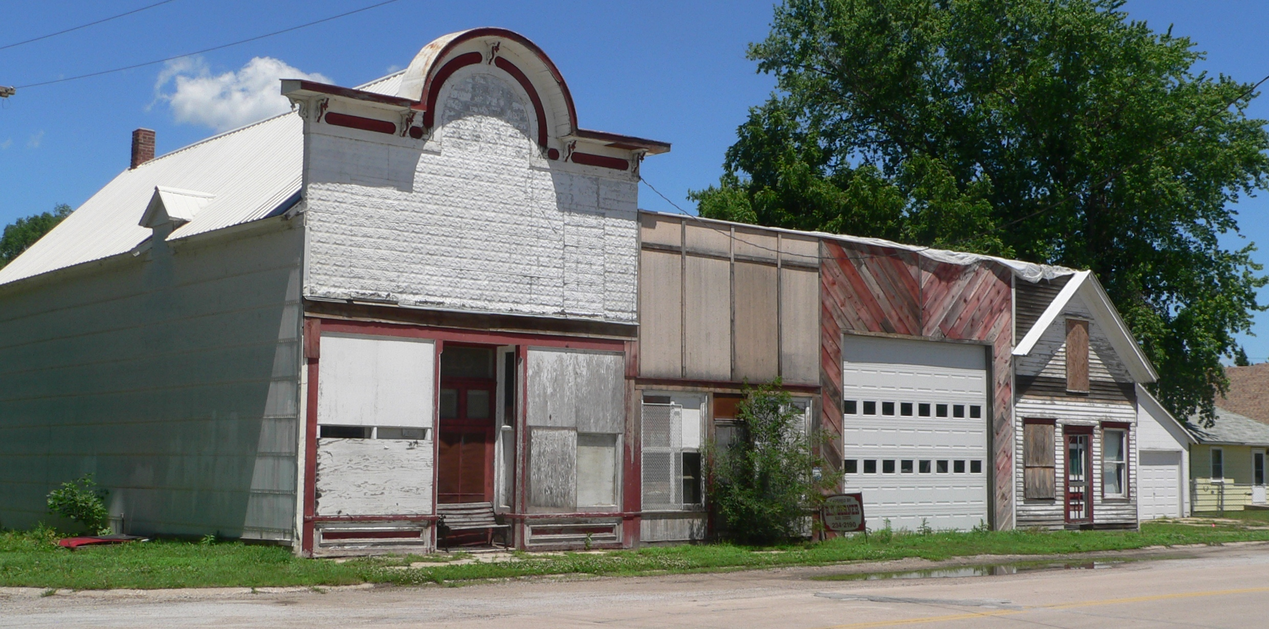 Downtown Cedar Creek, Nebraska: north side of B Street.